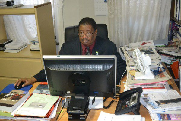 Working in his office